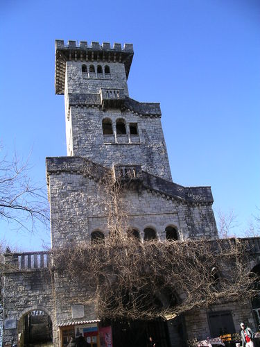 Akhun Observation Tower in Sochi.